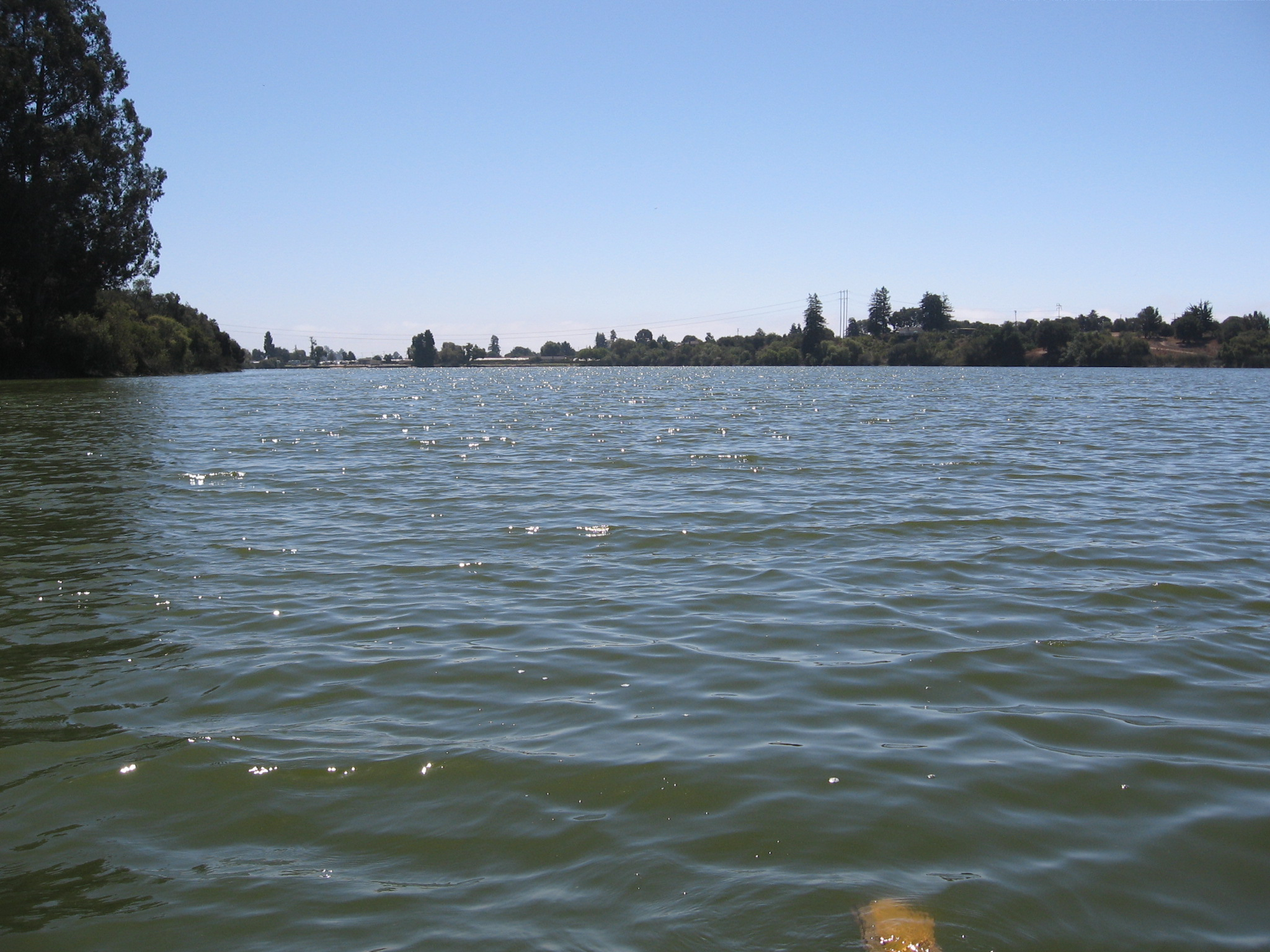 Pinto Lake County Park in Watsonville. Picture taken from a rowboat rented at the park.